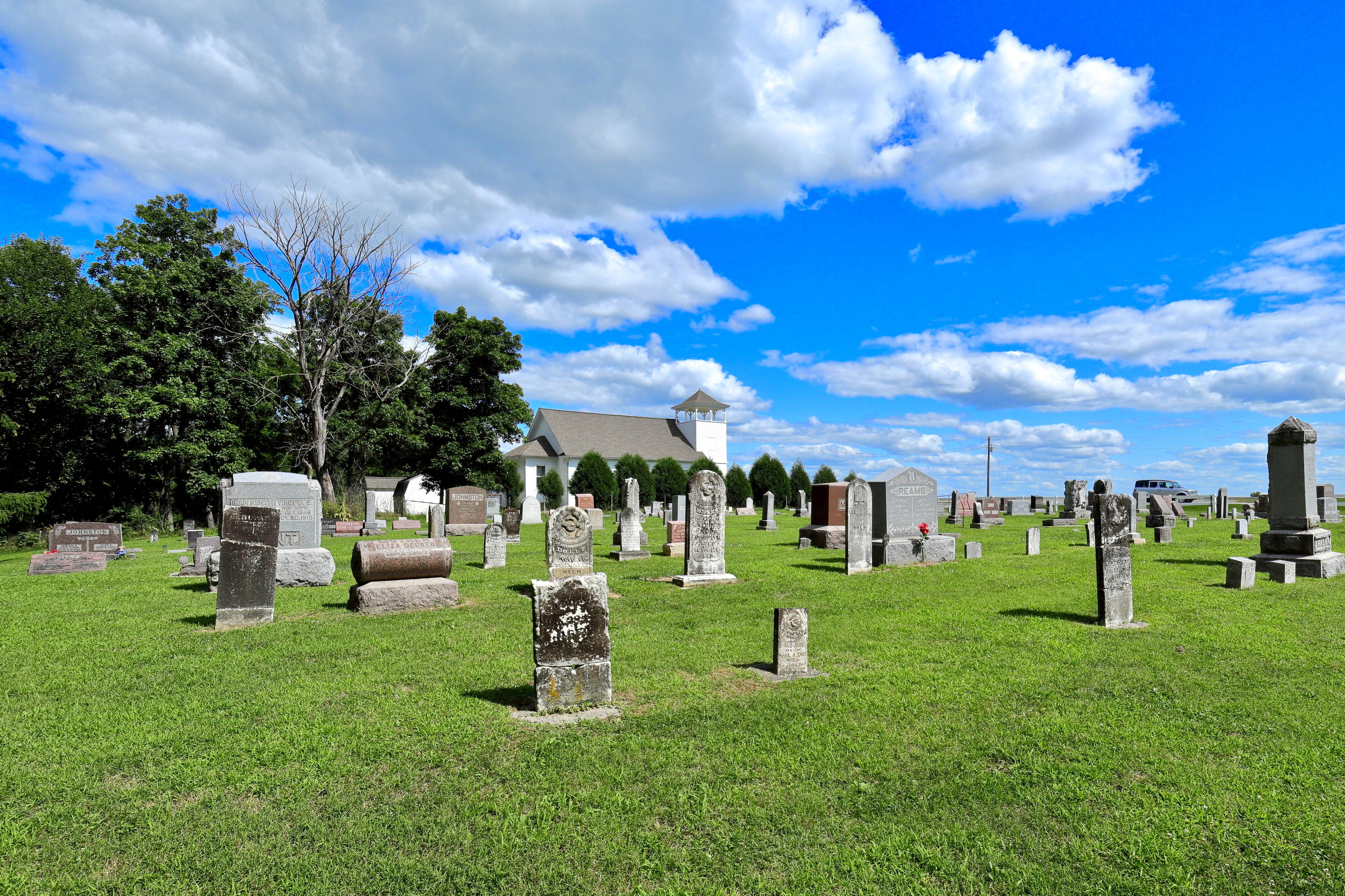 Historic Kent Union Chapel and cemetery, north of Brooklyn, Iowa, in Poweshiek County.